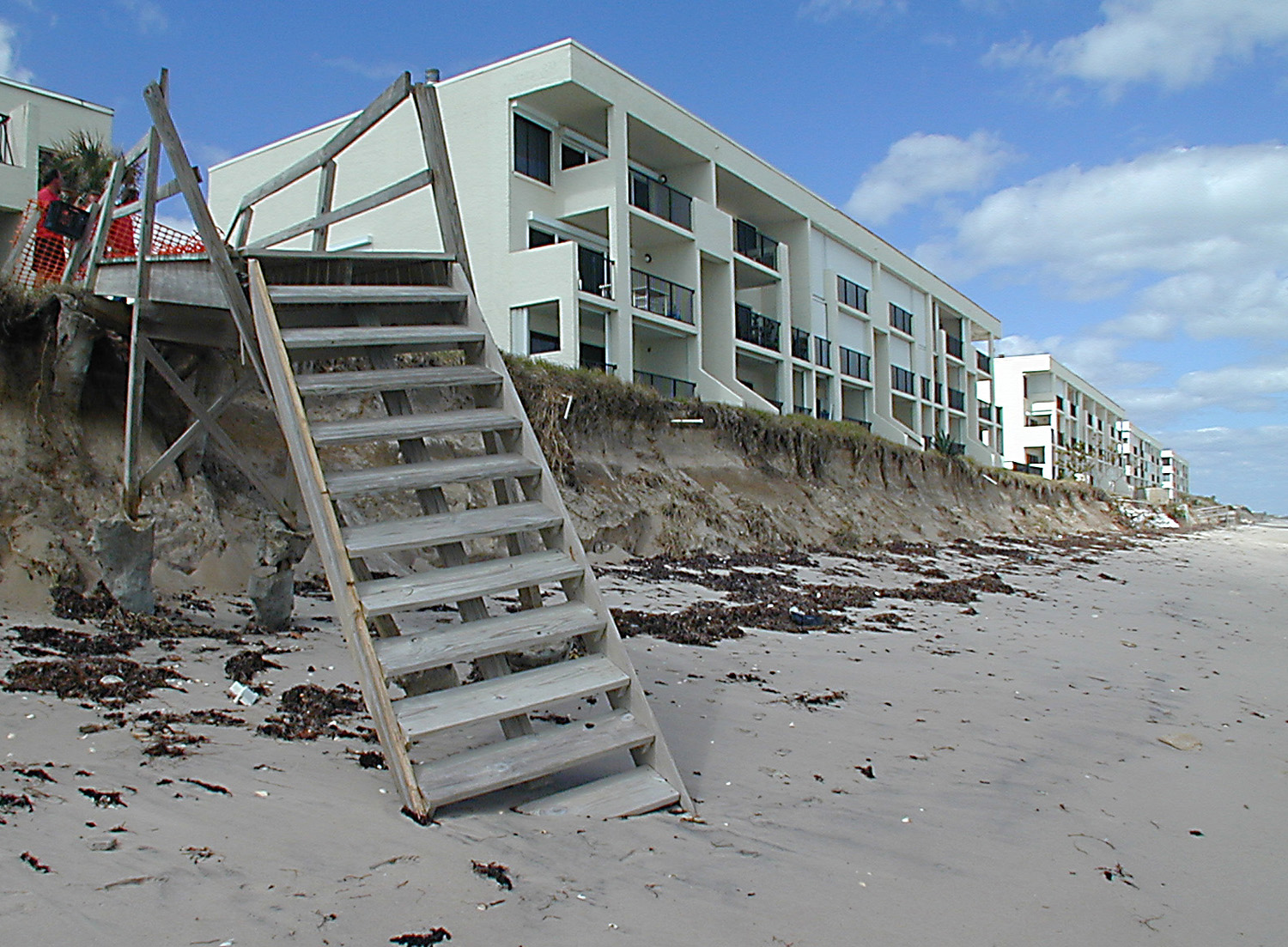 Beach erosion caused by Hurricane Irene in October of 1999